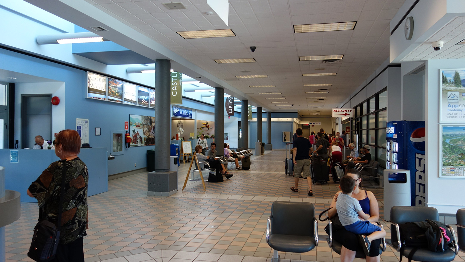 Terminal interior at Castlegar Airport, West Kootenays, British Columbia, Canada